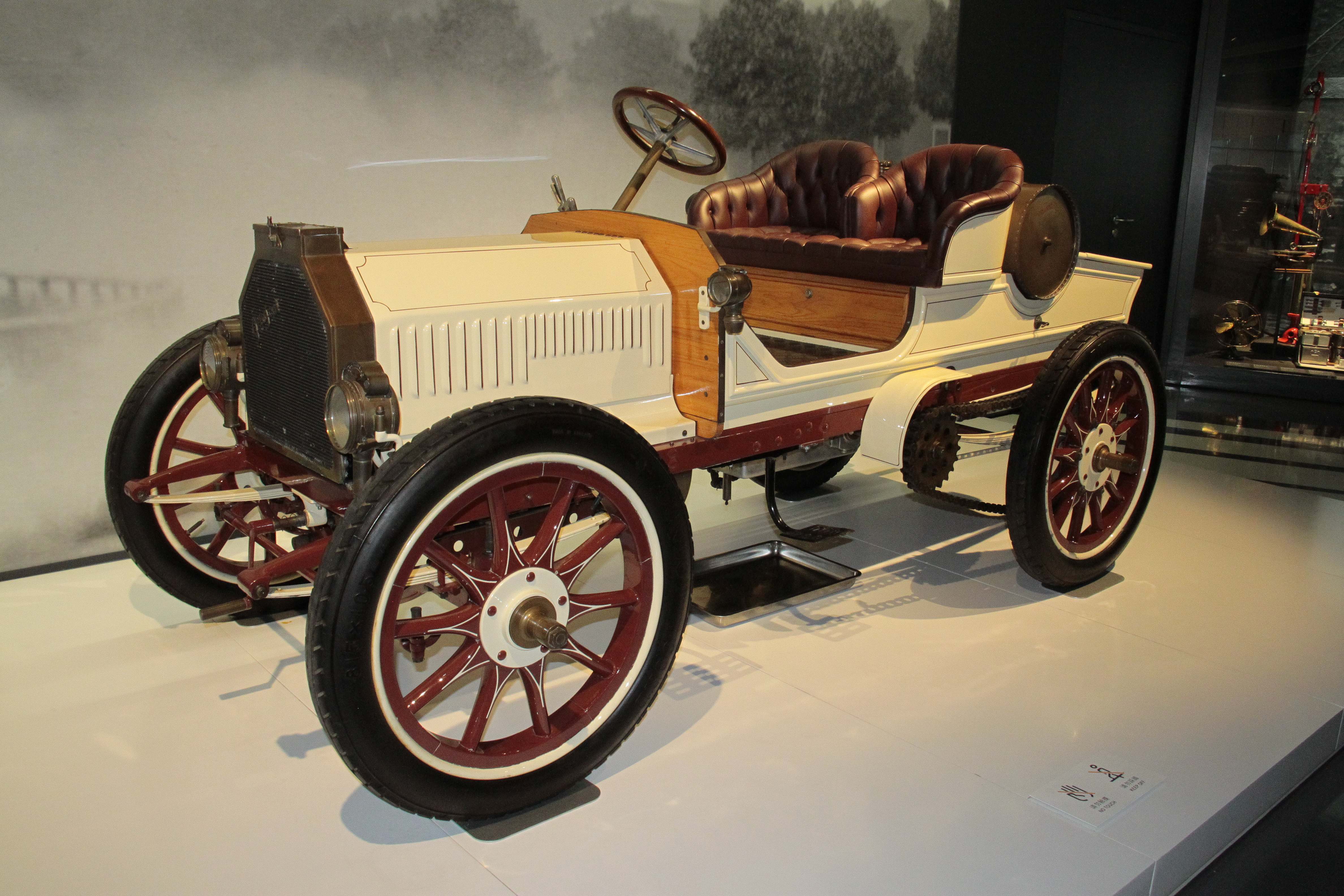 1902 Peugeot Type 39 at the Shanghai Auto Museum